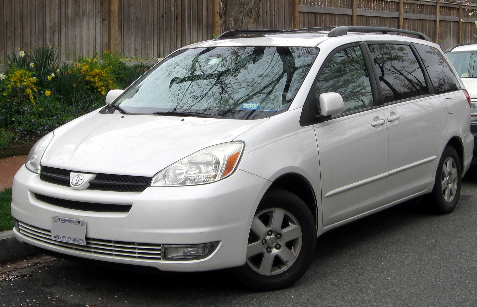 2004-2005 Toyota Sienna photographed in Washington, D.C., USA.